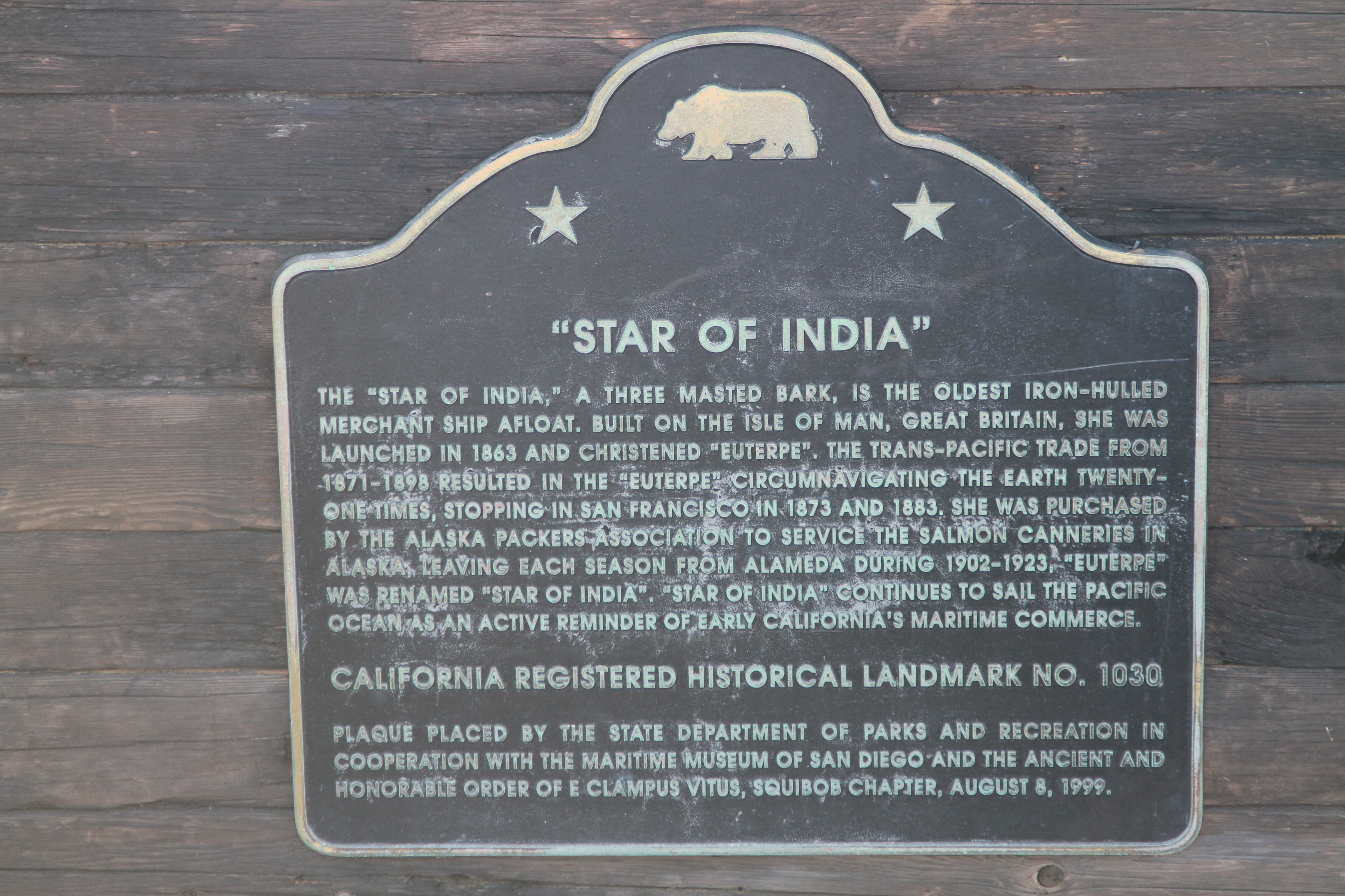 Plaque on the Star of India, a Three Masted Bark, the oldest iron-hulled merchant ship afloat. The plaque identifies the ship as a California registered historical landmark, number 1030.